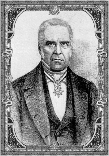 Self-portrait of José Ignacio Pavón, Lithograph (1870-1907).